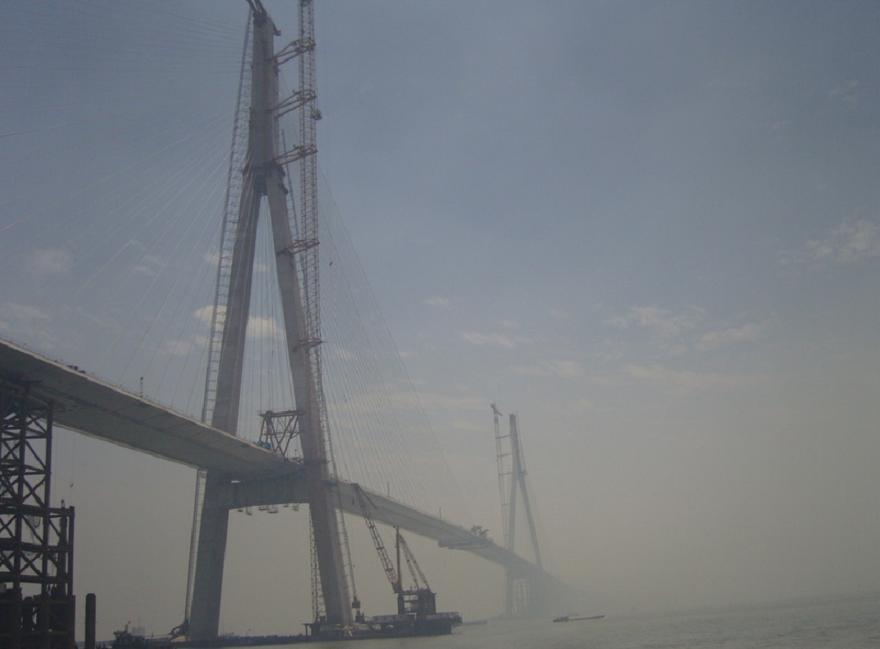 Sutong Bridge (Suzhou-Nantong, Jiangsu Province, China) under construction, with main strucutre nearly finished.